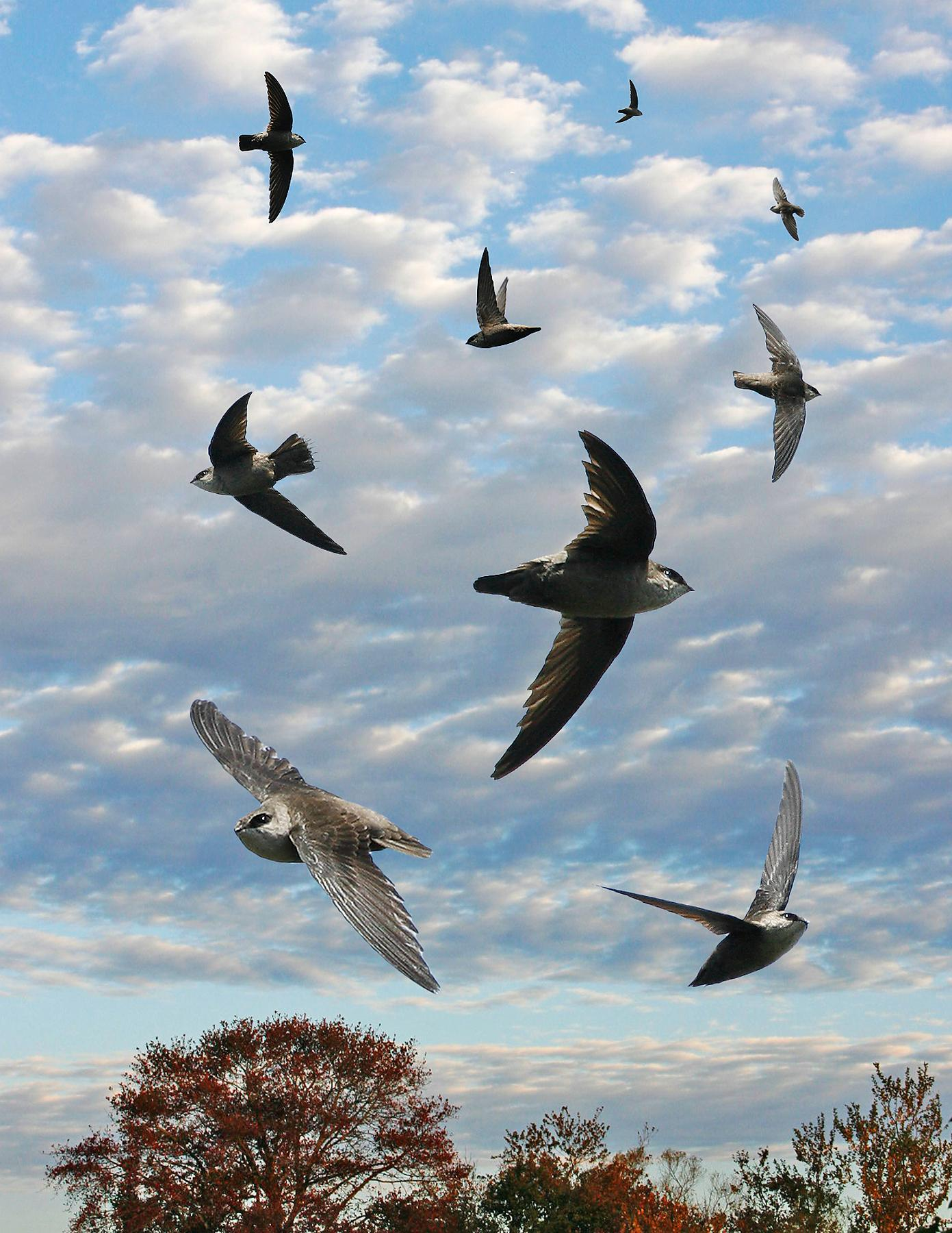 Vaux's Swift From The Crossley ID Guide Eastern Birds